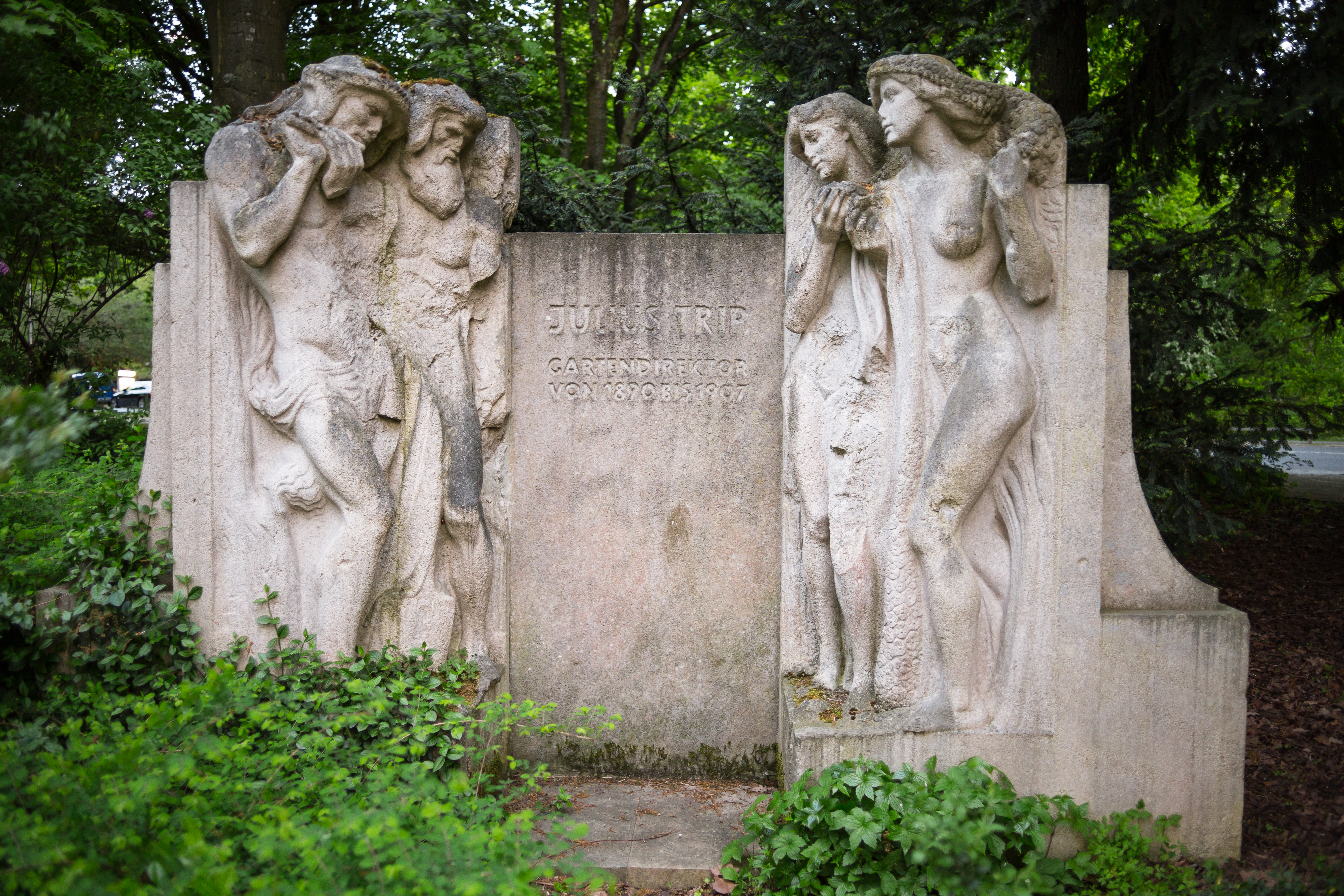 Monument for garden architect Julius Trip located at Maschpark garden and Culemannstrasse in Mitte quarter of Hannover, Germany.